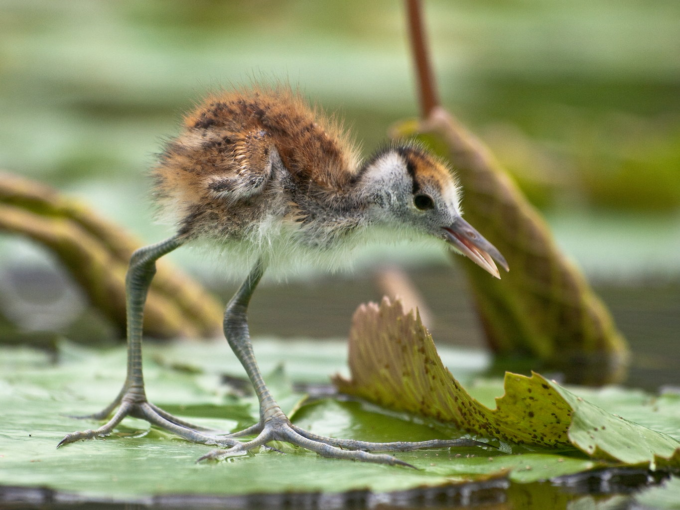 An African Jacana chick in captivity at Kakegawa Kacho-en, Kakegawa, Shizuoka, Japan.